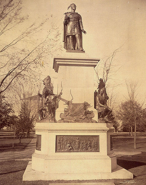 Chief Joseph Brant Memorial, Brantford, Ontario, Canada, 1886